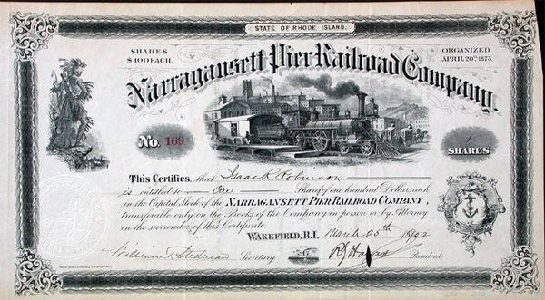 Narragansett Pier Railroad Company, 1902